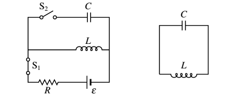 Circuito LC